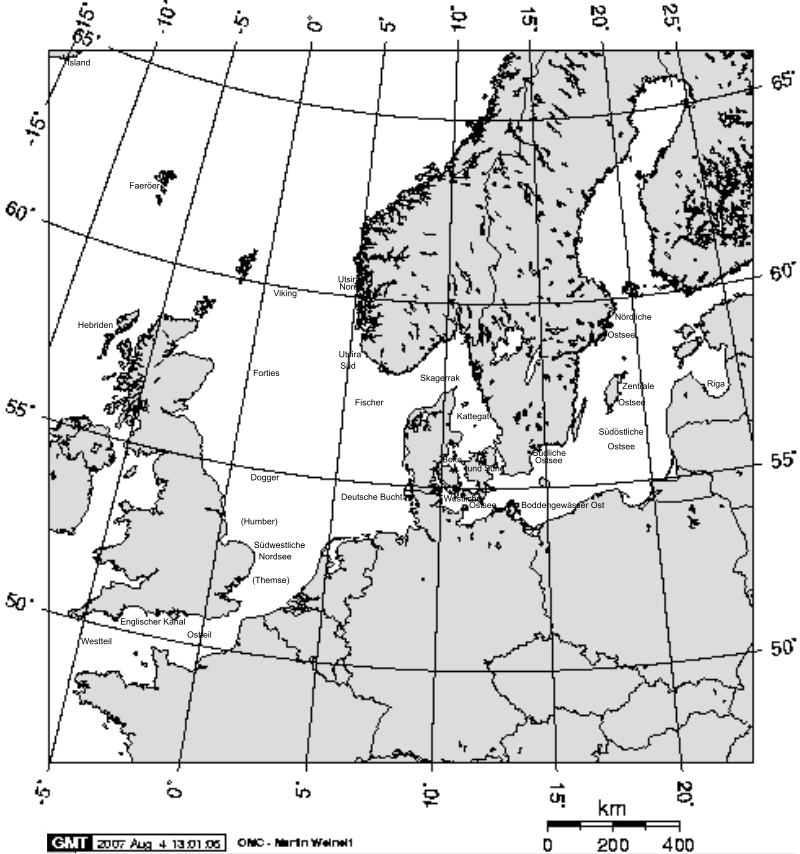 Map of North Sea and Baltic Sea